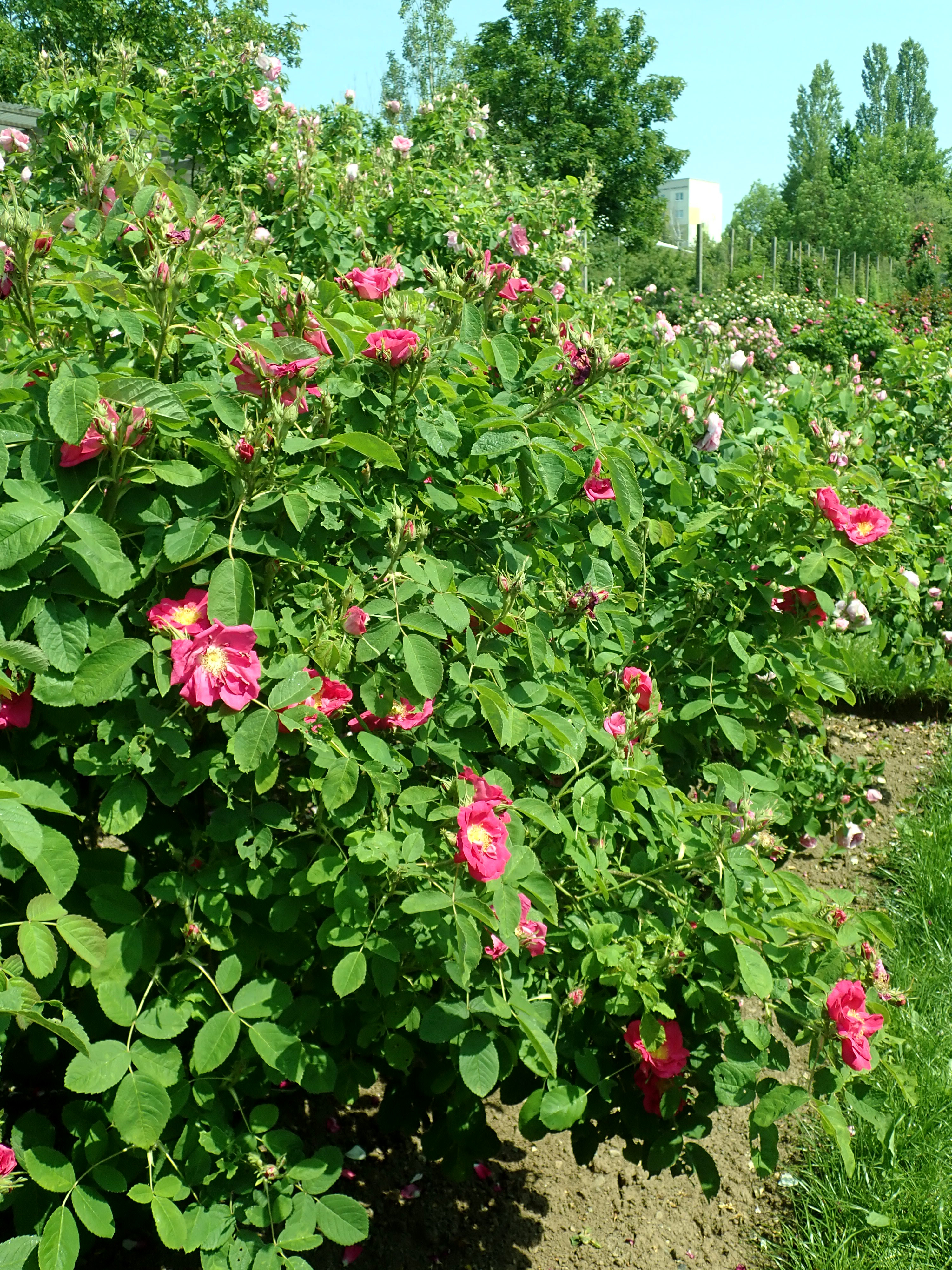 Rosa ‘The Portland Rose’ (unknown breeder, before 1775), Europa-Rosarium Sangerhausen.